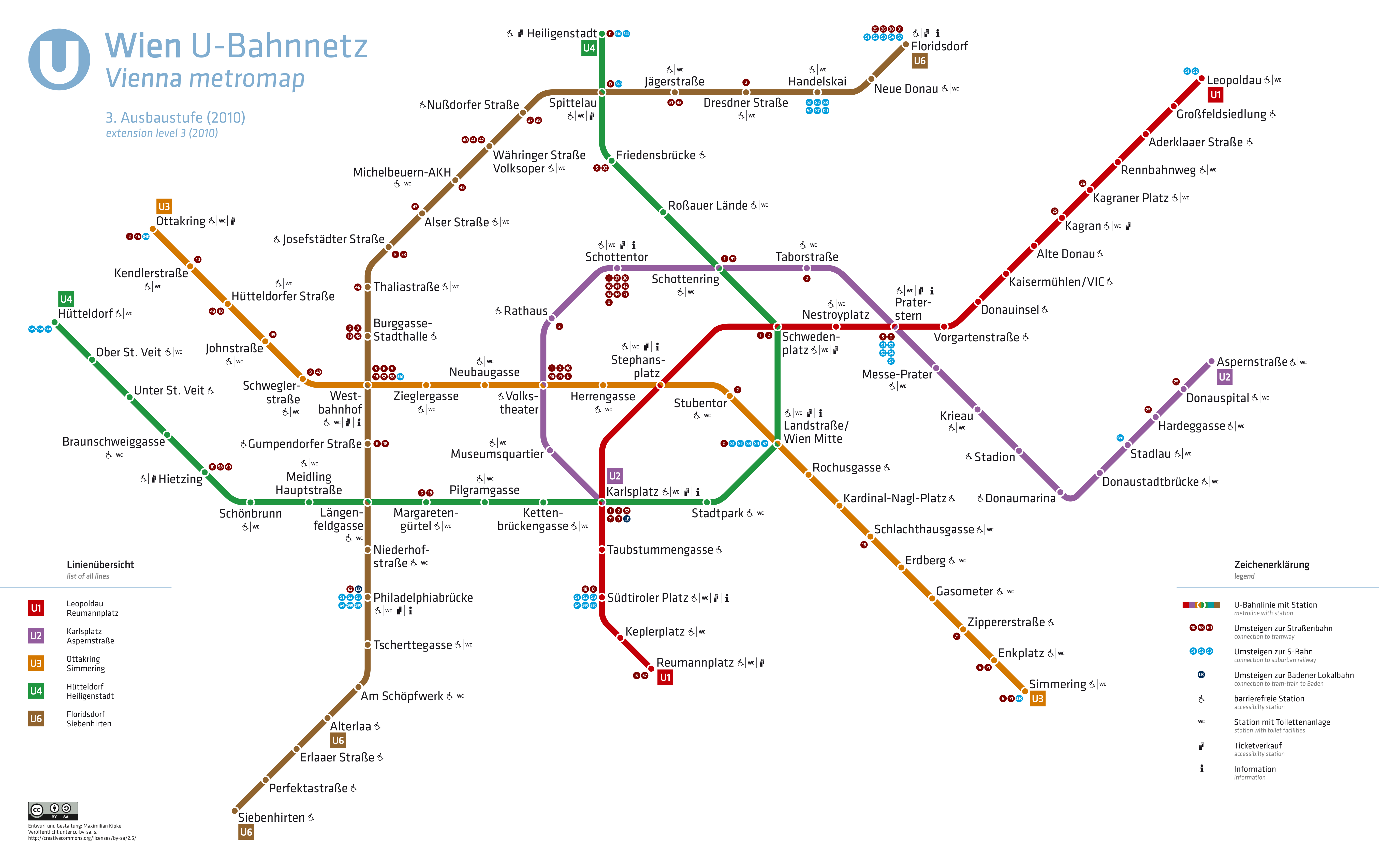 Metromap of Vienna in 2010